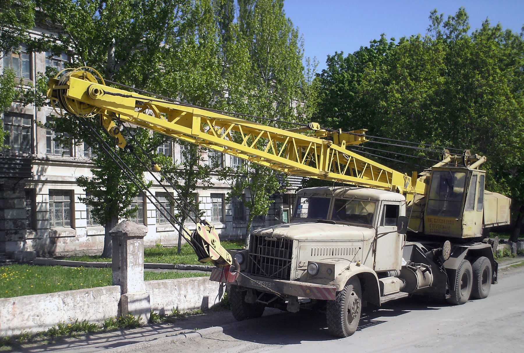 crane based on Kraz 257 in Kramatorsk (Ukraine)